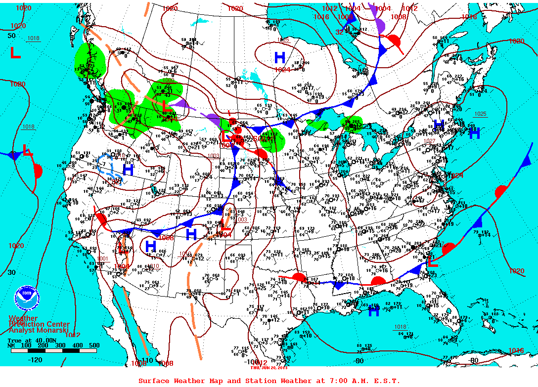 Meteorological surface map analysis of weather systems on June 20th, 2013, showing the low pressiona area slowly moving of Southern Alberta during a major flodding event in Southern Alberta.